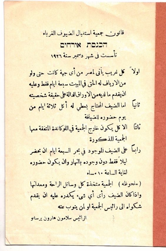 Jewish organisation in Jewish Harah in Cairo 1926